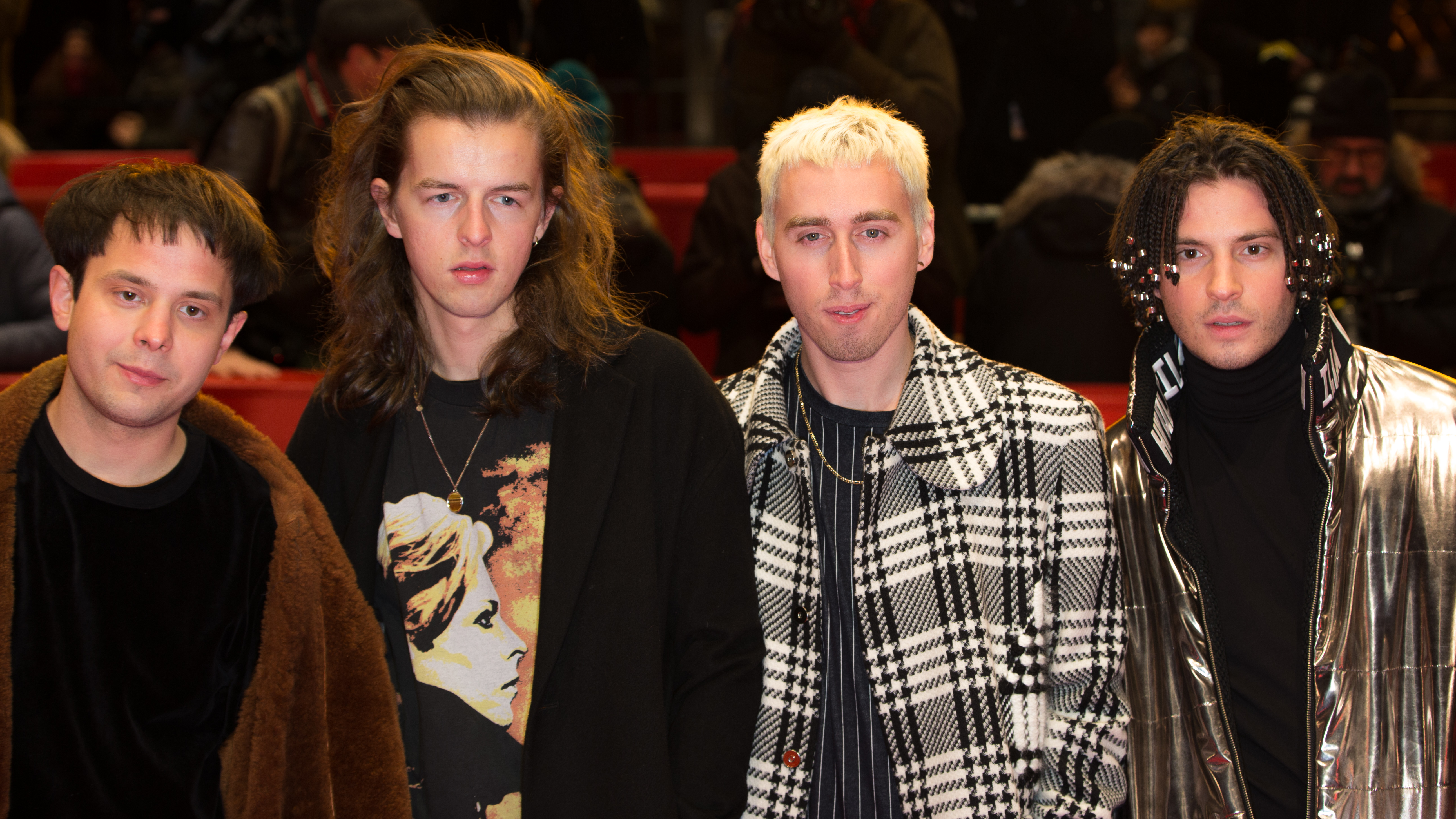 The band Bilderbuch at the premier of Wilde Maus, Berlinale 2017